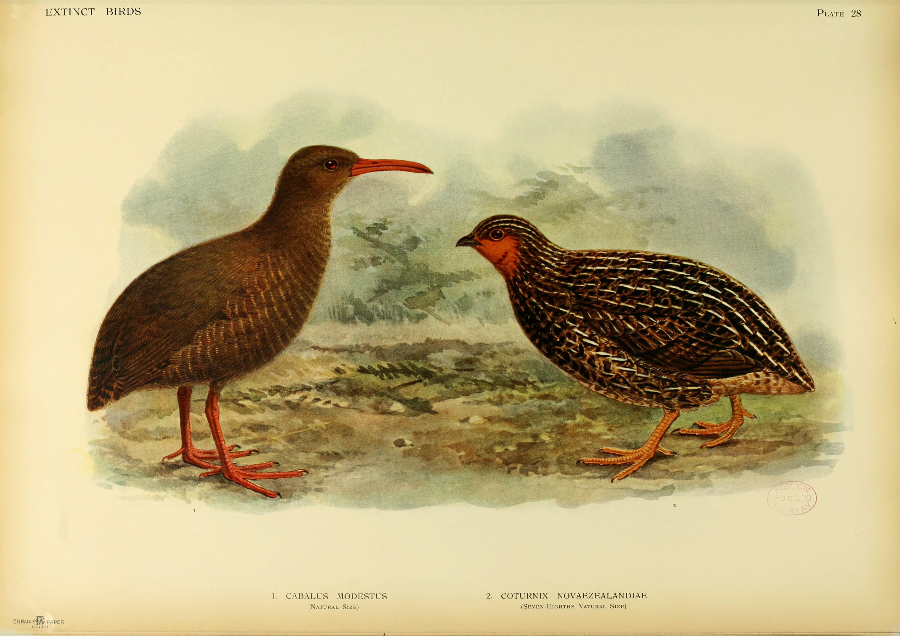 The Chatham Rail (Cabalus modestus) is an extinct species of bird in the Rallidae family. It was endemic to New Zealand. It became extinct around the year 1900 due to introduced predators. The other bird is the New Zealand Quail, or koreke (the Māori name), Coturnix novaezelandiae. It has been extinct since 1875.